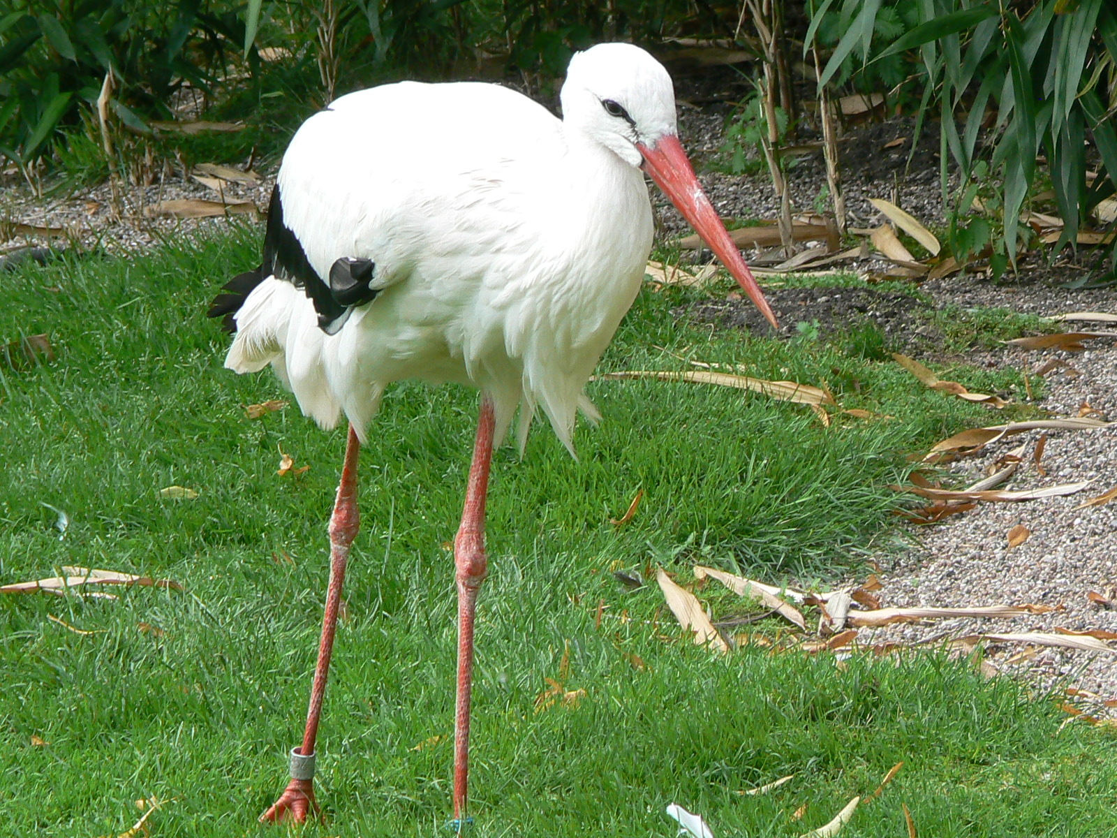 white storch / Ciconia ciconia / Weißstorch